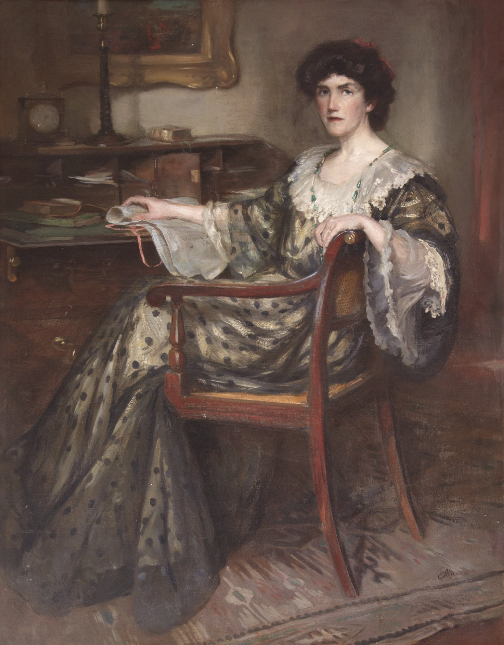 Portrait of Elizabeth Catherine "Ella" Carmichael by Charles Hodge Mackie, c.1902. Seated towards the left at a desk, the sitter turns to face the onlooker with one hand on the back of her chair, the other resting on the desk and holding the scroll. She wears a long evening gown and necklace of green stones, There is a clock, candle and part of a picture visible in the background. The artist creates the impression of an intense and artistic personality.